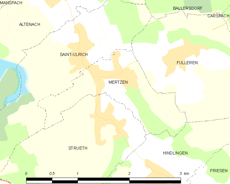 Map of French municipality